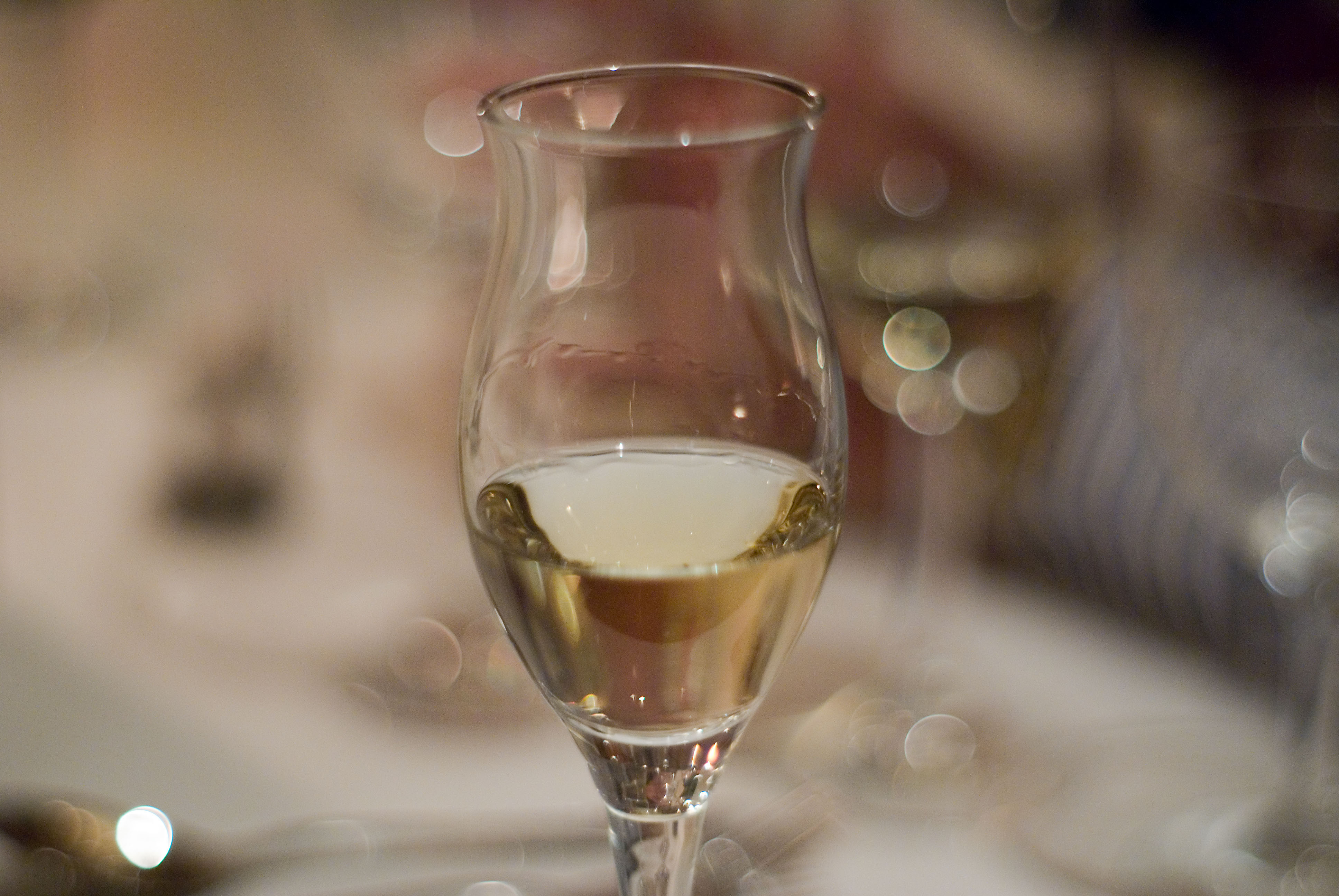 a glass of grappa that i really enjoyed. you can really believe me :)